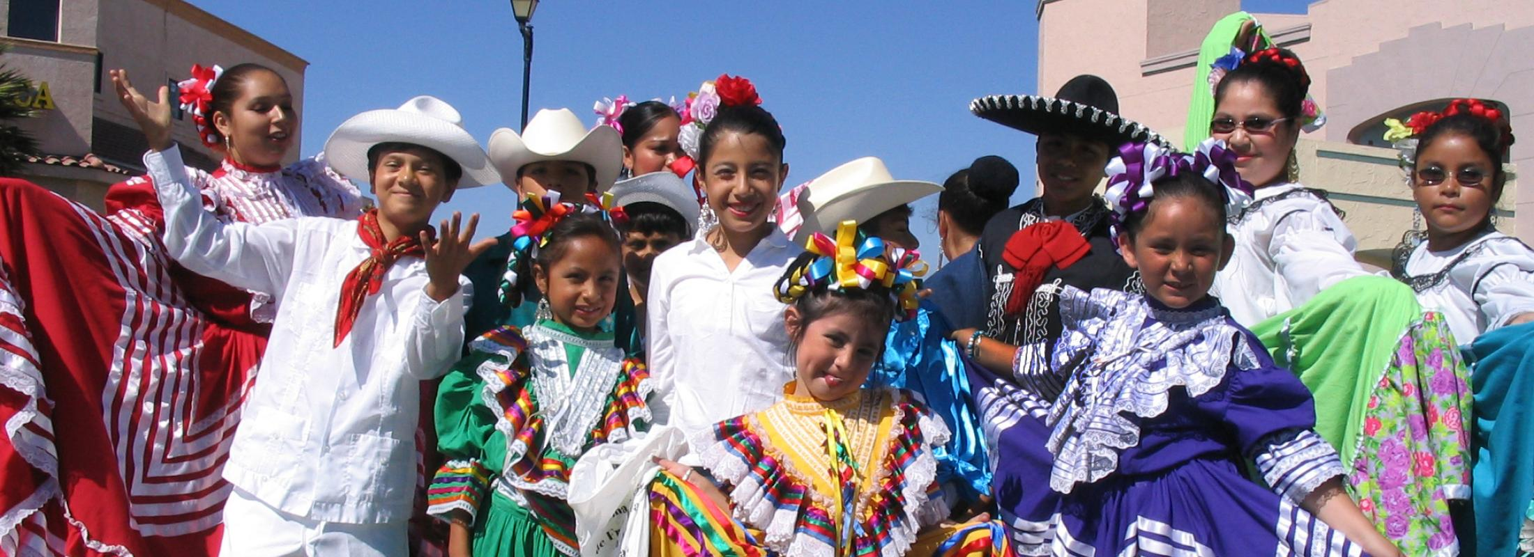 Dancers in Salinas, California